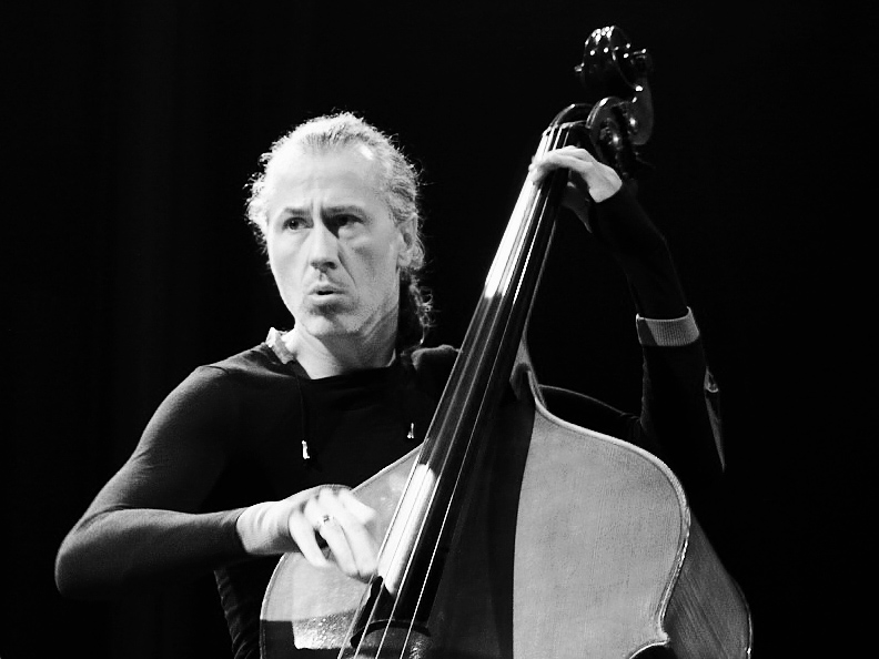 Bruno Chevillon at moers festival 2006